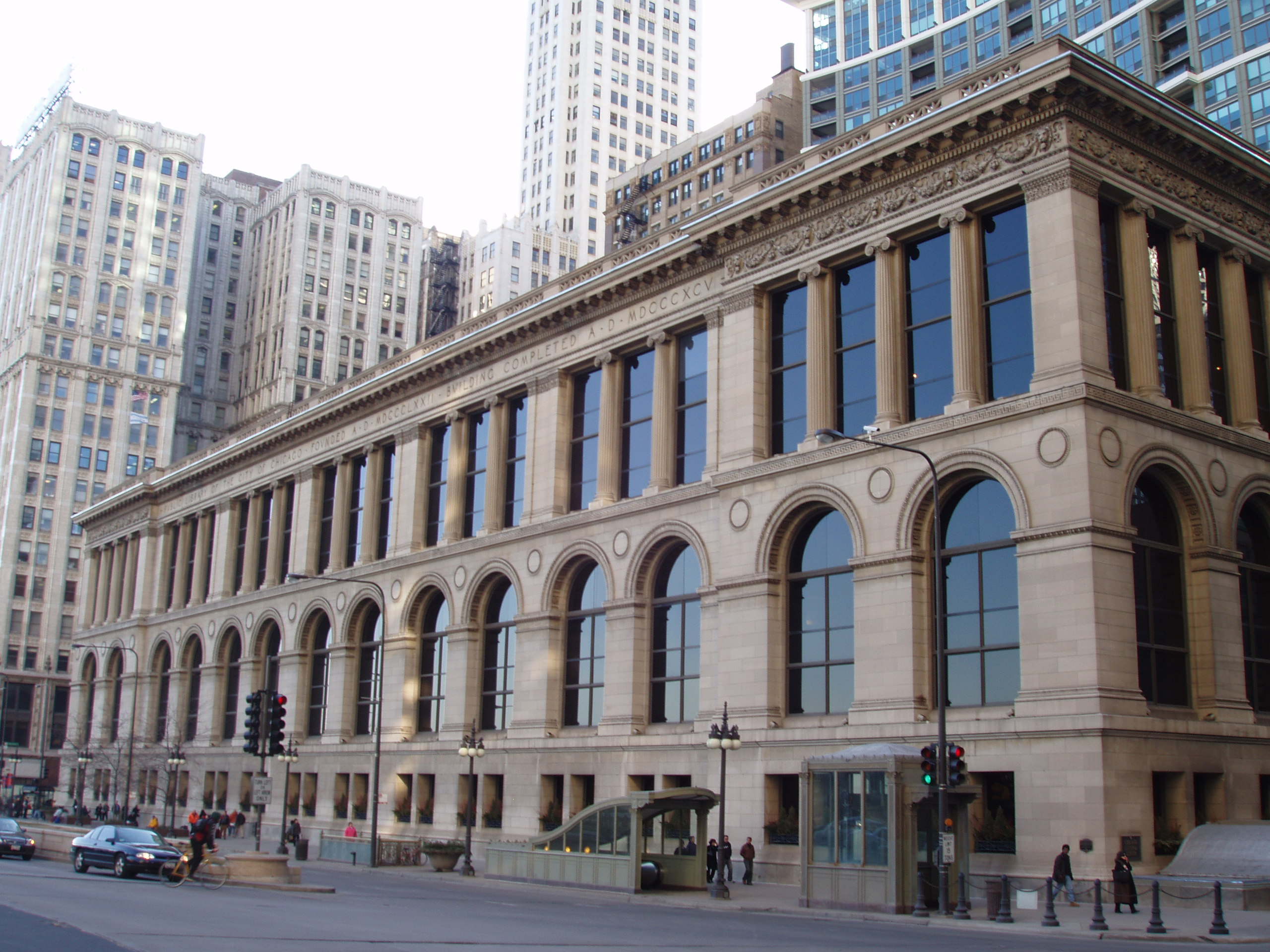 Chicago Cultural Center, Chicago, Illinois. Photographer: David K. Staub